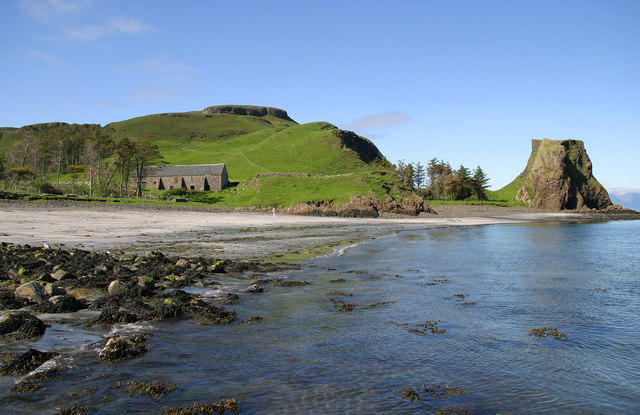 An Coroghon A choice of geographs in this picture; the barn at An Coroghon, Compass Hill and the flat topped feature shown as a castle on the OS maps but locally known as the prison.